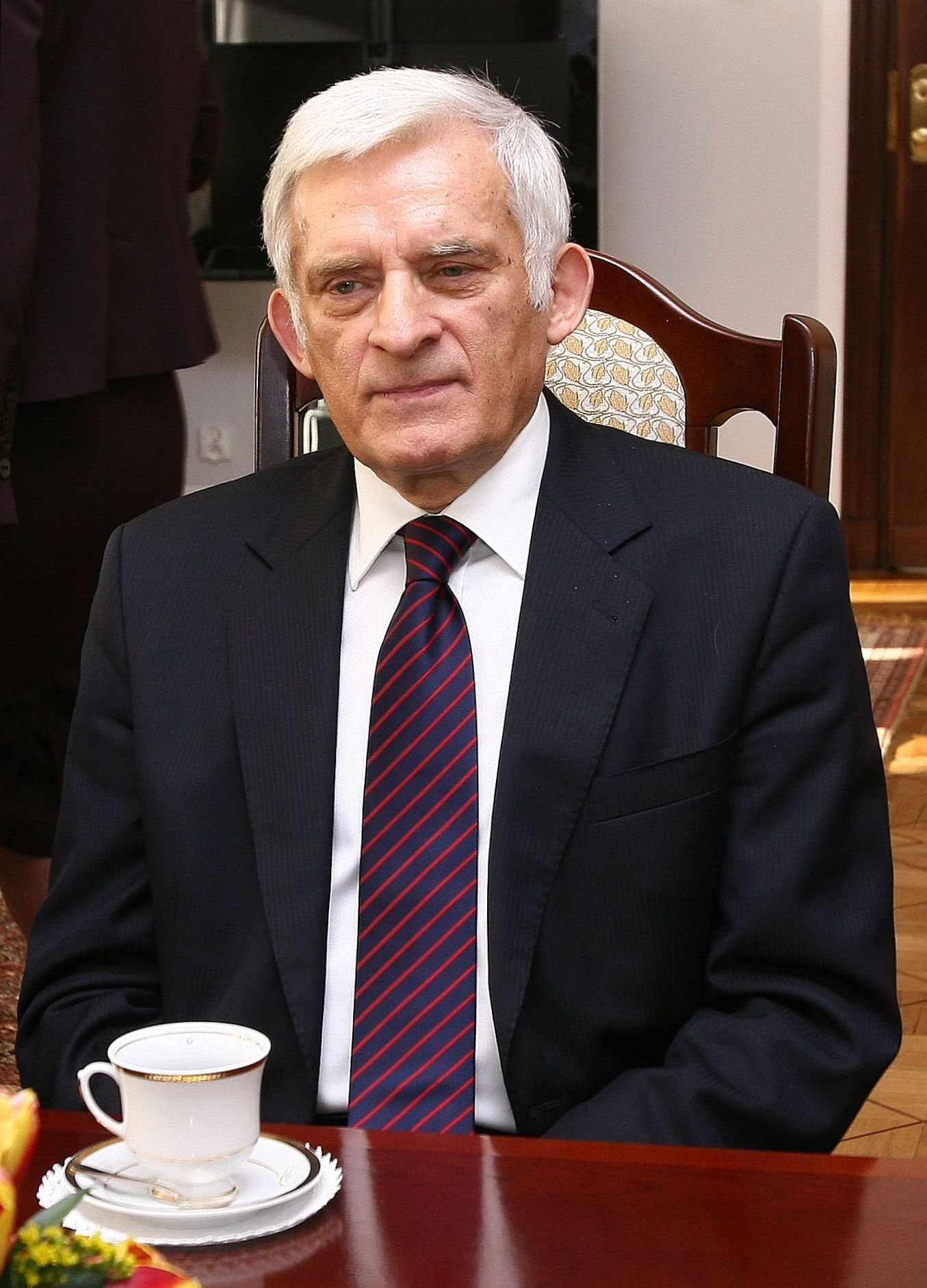 President of the European Parliament Jerzy Buzek in the Polish Senate